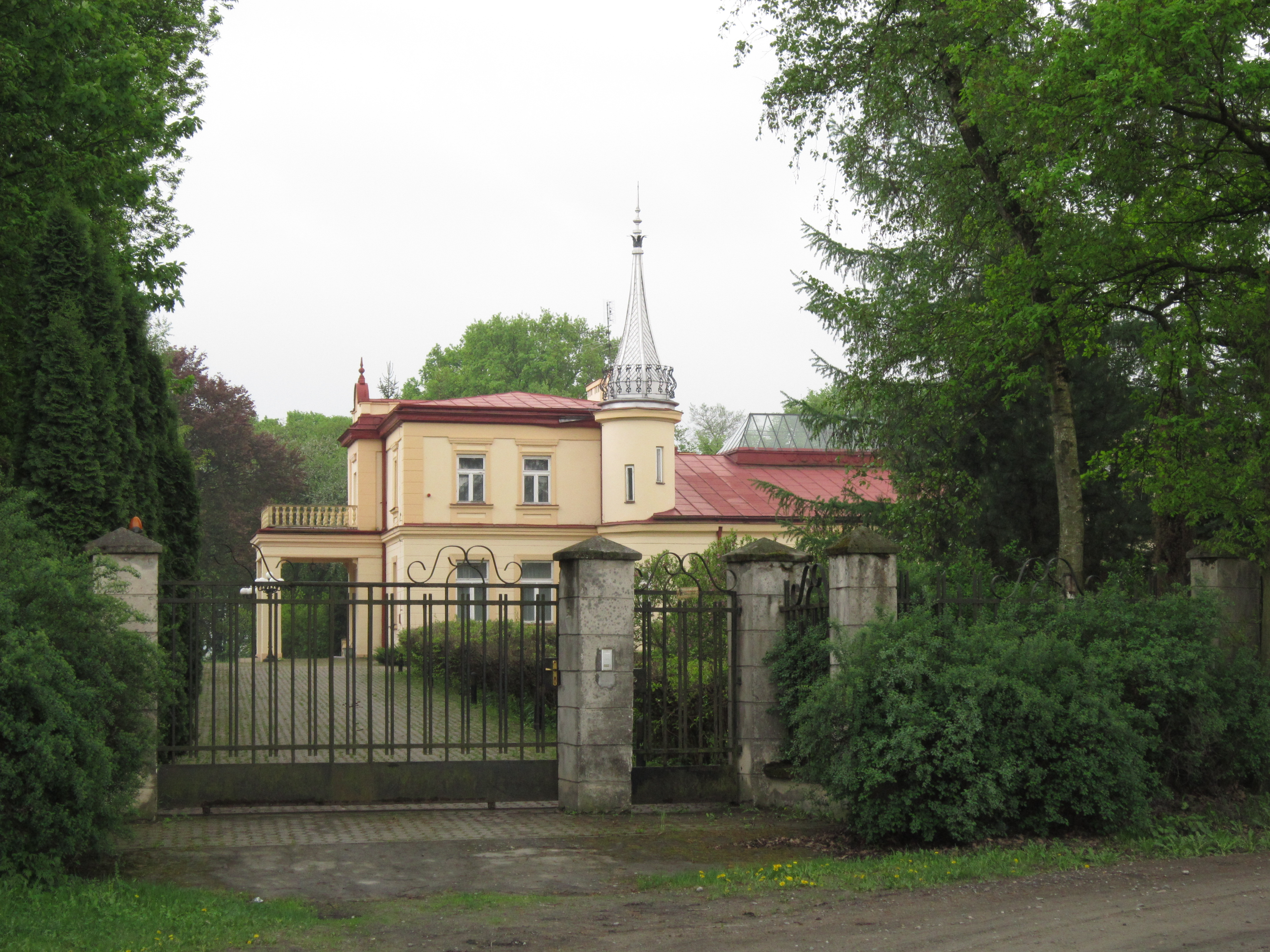 Dwór in Głodowo near Lipno, built in XIX century. In past it was belong to Pląskowscy coat Oksza family.